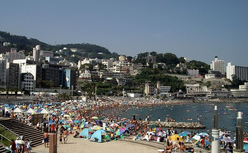 Copied from File:熱海01.jpg: "..."